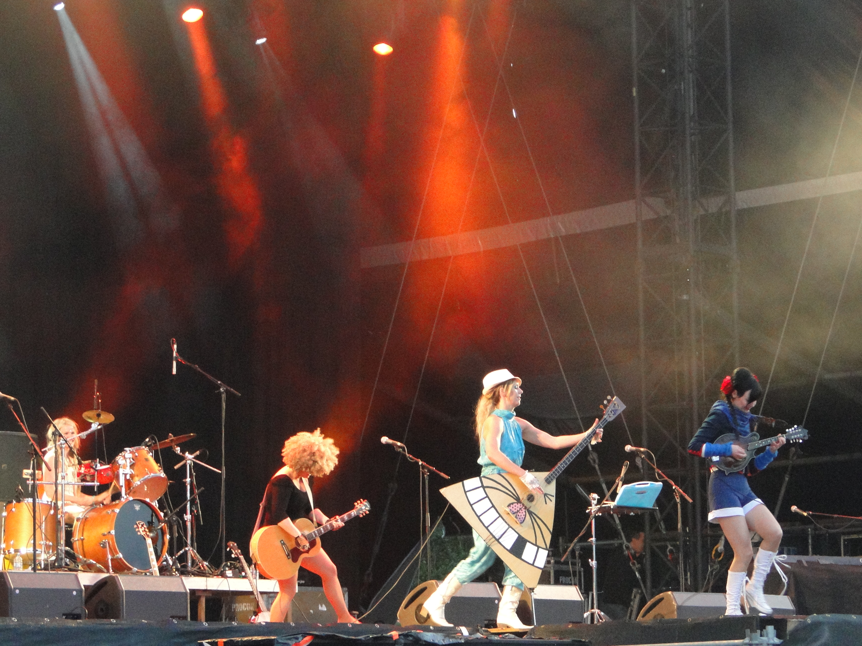 Katzenjammer, "Hamburger Kultursommer", Germany, 2011